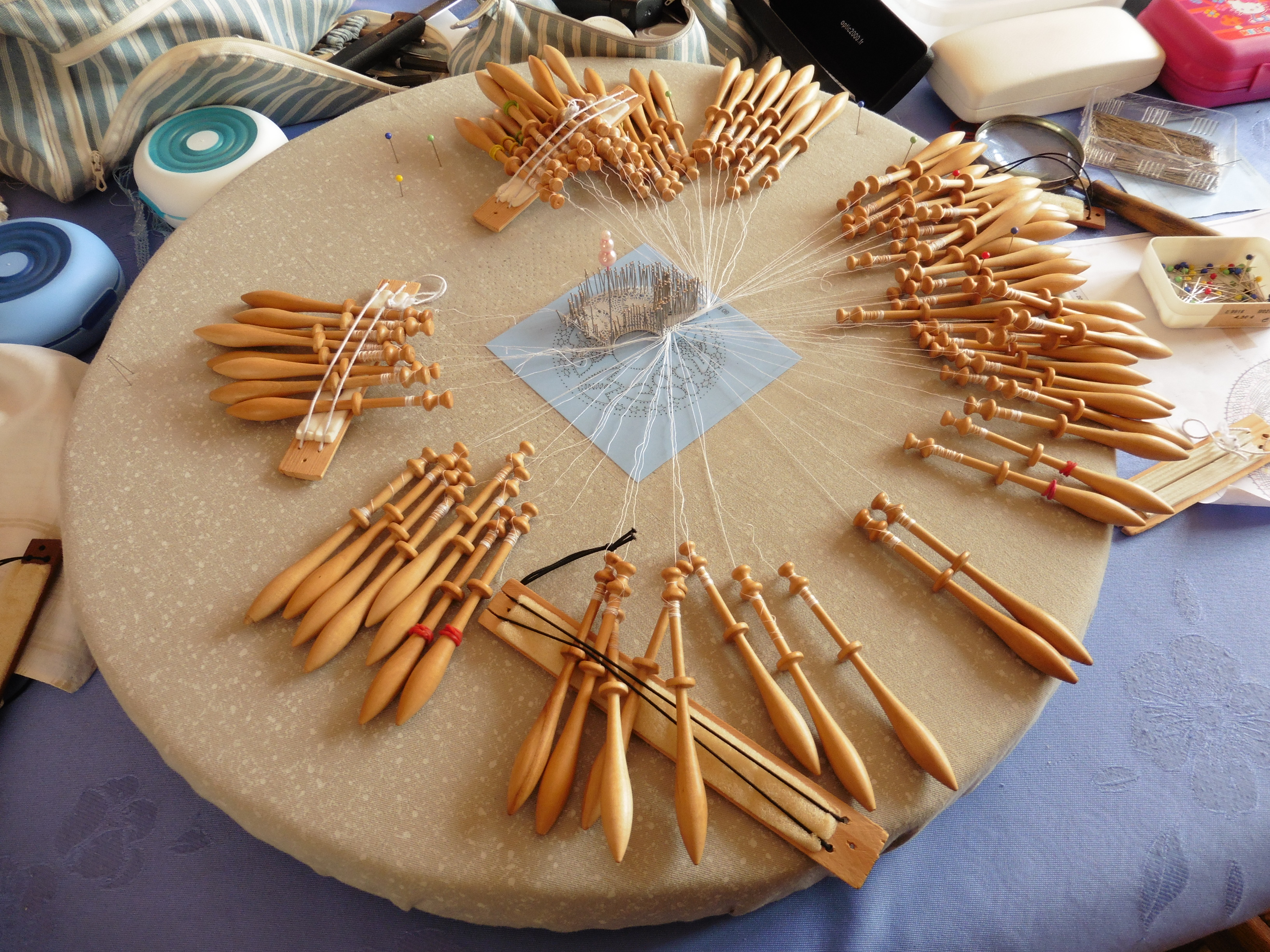 Binche Lace in progress